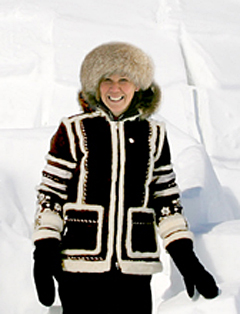 Jan Brett is an author/illustrator of children's books. Her books are known for colorful depictions of a wide variety of animals. With over 33 million books in print, Jan Brett is one of America's most popular and beloved children's book creators. Today her books, regularly occupy the New York Times #1 slot for children's picture books. Classic titles include:, The Hat, Three Snow Bears and in 2008 Gingerbread Friends arrived as a sequel to Gingerbread Baby. Jan has one of the most popular author websites in existence ( Millions of visitors come each year to access thousands of pages of free activities for kids. There are also videos which include "how to draw" segments and footage from her book research trips. Jan's work is beloved by teachers and librarians who access her site for use in the classroom. Jan Brett has brought to life lovable characters and imaginary landscapes for millions of children. There is not a public library or elementary school library in the US that does not have at least one of Brett's books on their shelves. She was awarded the Boston Public Library's Lifetime Achievement Award in 2005. Her books have been chosen as "Best Children's Books of the Year" by Newsweek, The New Yorker, Parents magazine, and Redbook.